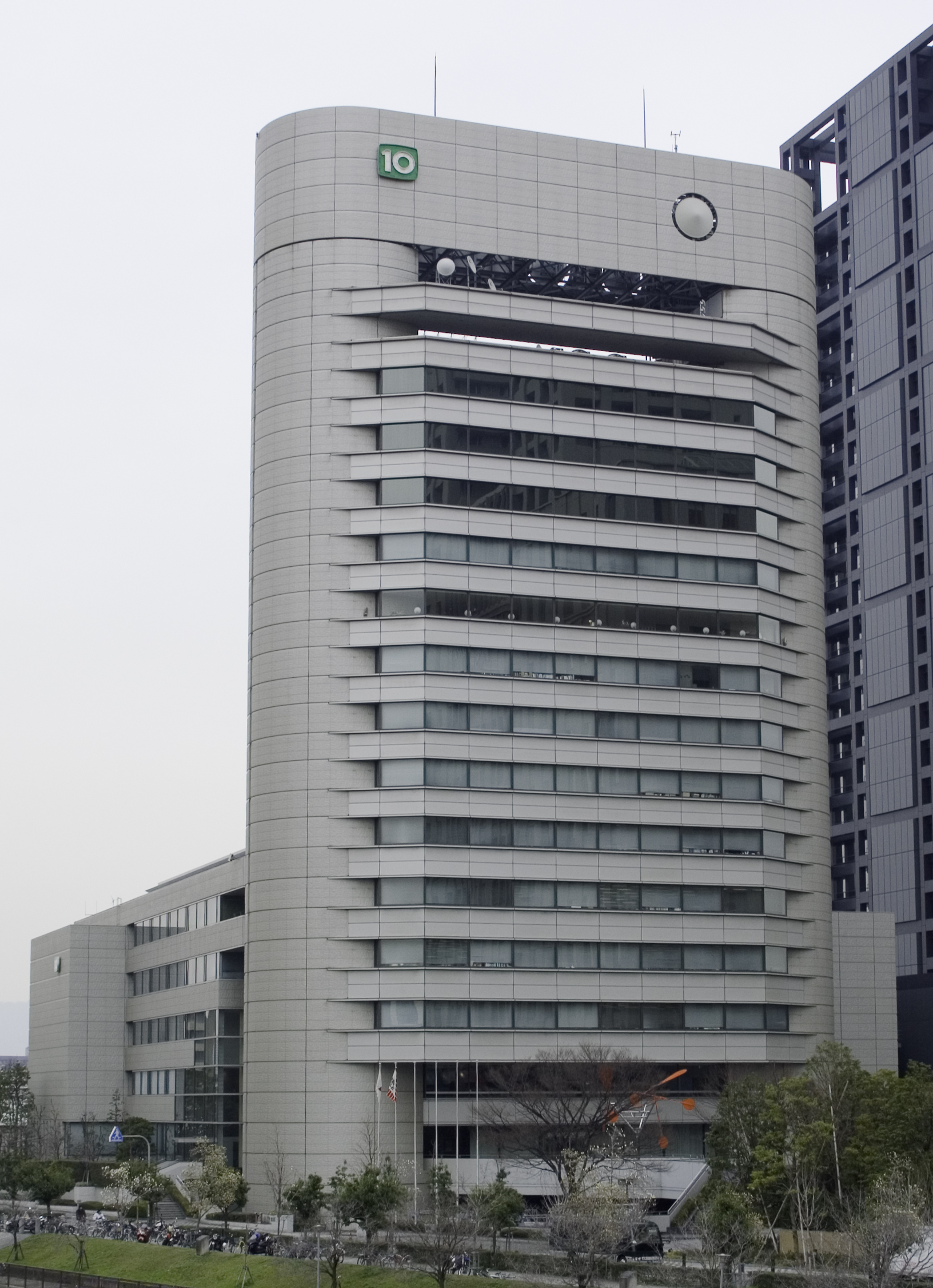 Photograph of head office of Yomiuri Telecasting Corporation in Chuo-ku, Osaka, Osaka Prefecture, Japan.